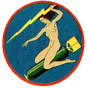 Emblem of the 488th Bombardment Squadron